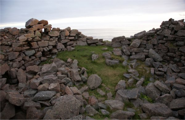 The Broch of Culswick, Mainland Shetland, Scotland